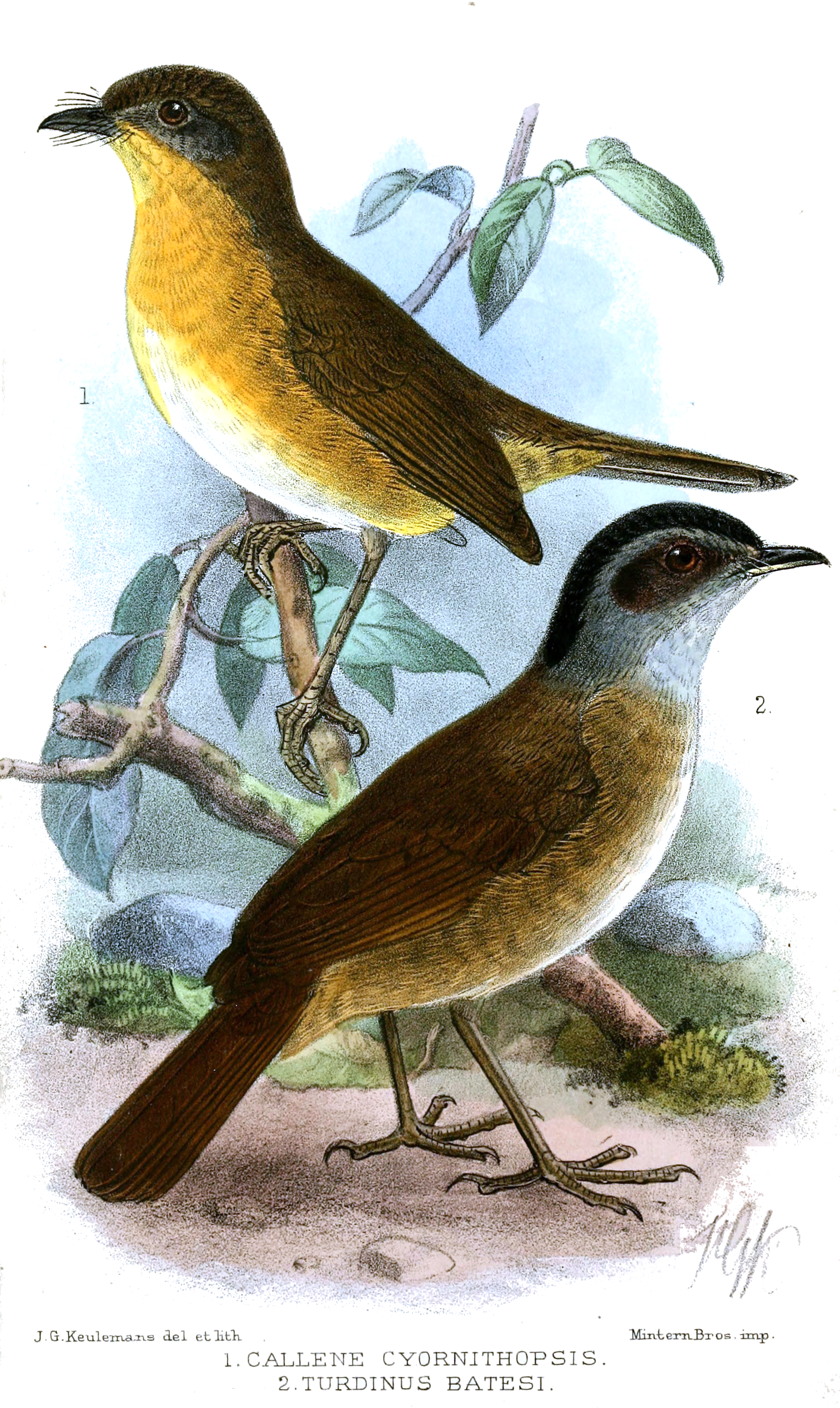 Callene cyornithopsis = Sheppardia cyornithopsis Turdinus batesi (Blackcap Illadopsis now Illadopsis cleaveri)